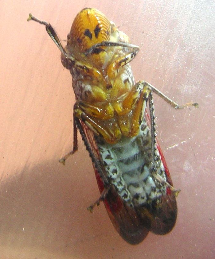 Glassy-winged sharpshooter underside Paulo 10/20/05 - San Jose, California